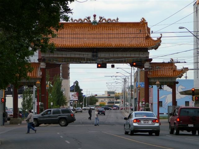 Harbin Gate in Edmonton. Facing east on 102 Avenue NW from west of 97 Street NW.